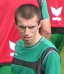 Image of football player Adrian Sikora (then Dyskobolia Grodzisk Wielkopolski).